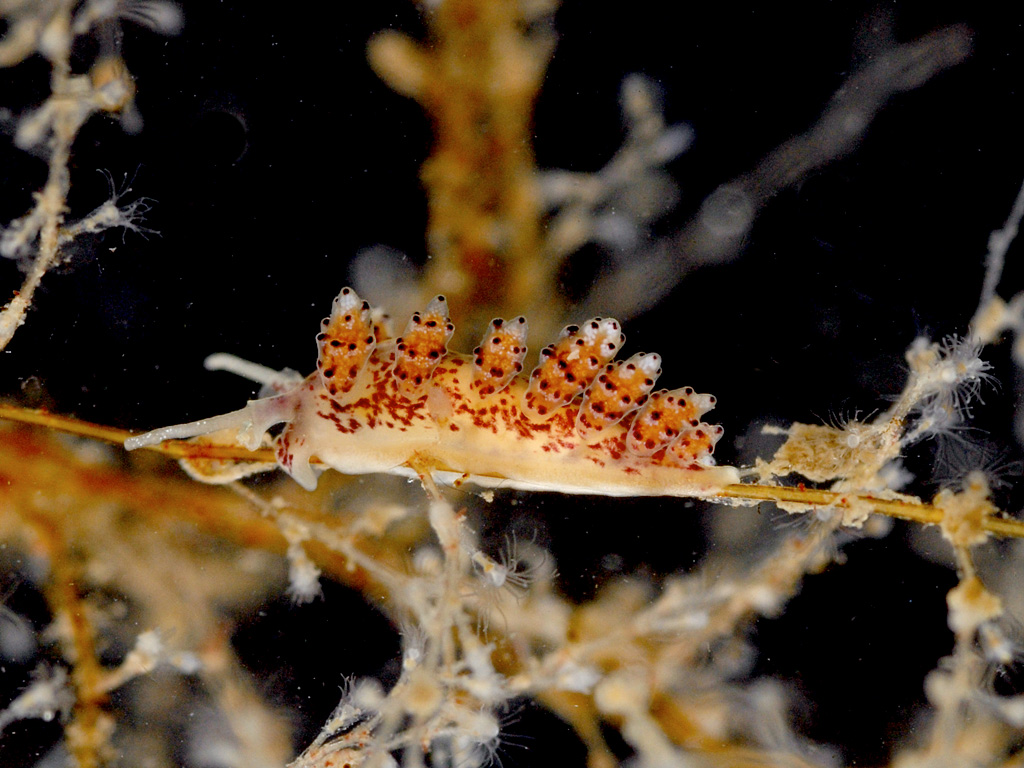 The nudibranch Doto coronata, Skomer Island, Pembrokeshire, Wales.